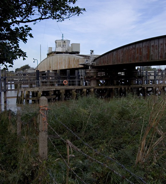 Goole rail bridge, East Riding of Yorkshire, England.Swing bridge over the River Ouse, seen from the eastern bank at Skelton. The bridge was threatened with closure in the 1980s due to the cost of repairing damage caused by frequent collisions with shipping. Humberside County Council intervened to help meet the cost of repairs and so preserve the direct rail link between Hull and Doncaster via Goole.